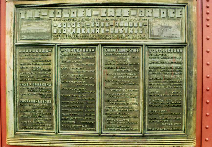 A plaque of the major contributors to the Golden Gate Bridge. Photo by Googie Man.